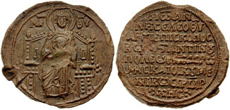 JOHN XIV Kalekas, Patriarch of Constantinople. 1334-1347. Lead Bulla (seal) (39mm, 43.76 gm). The Virgin Platytera seated facing on throne with arched back, holding Christ child / "John, by the Grace of God, Archbishop of Constantinopolis-the New Rome, and Ecumenical Patriarch". Zakos II, 44. Good VF with light brown patina, scrape on obverse. Rare.